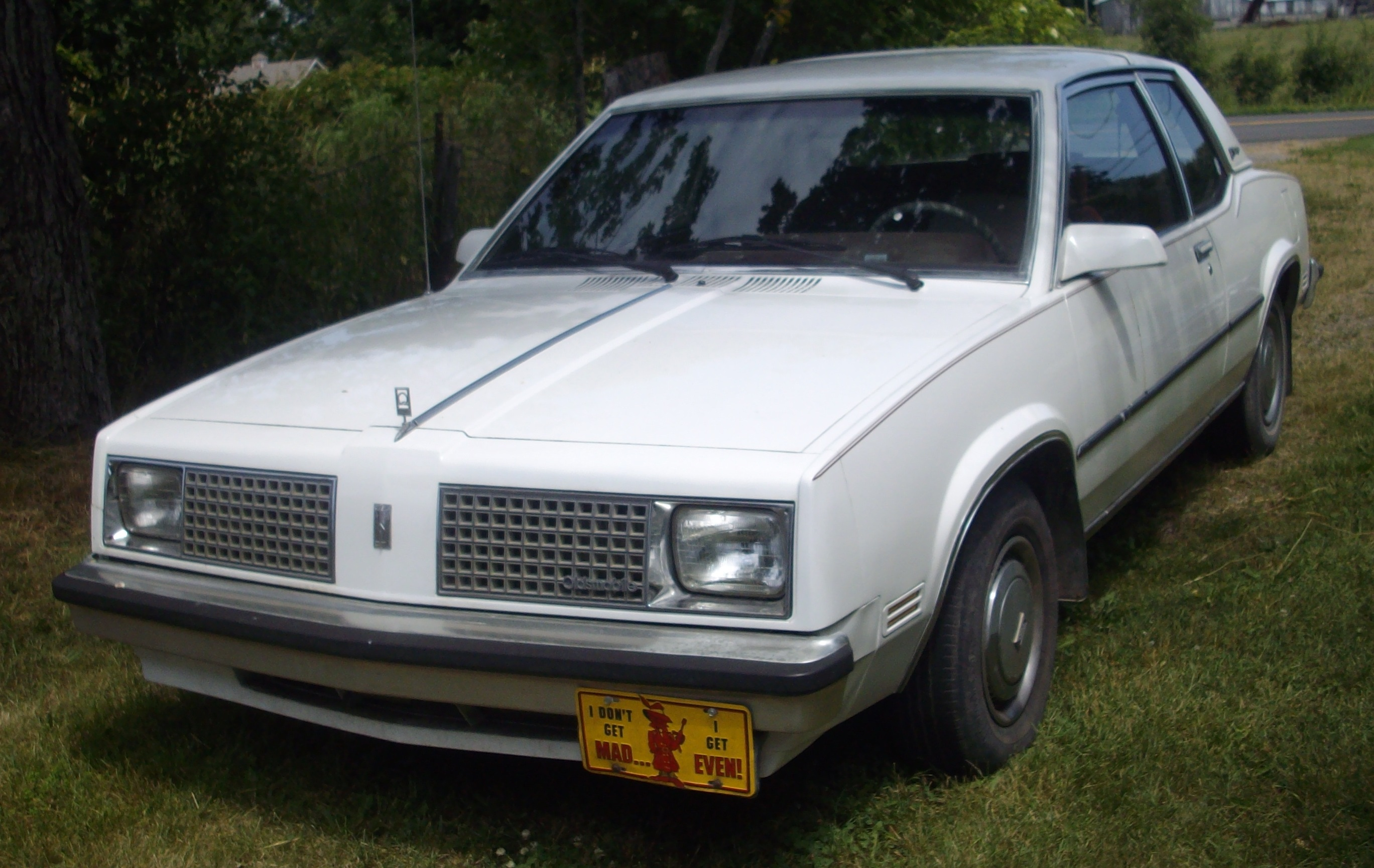 Oldsmobile Omega photographed in Hudson, Quebec, Canada.